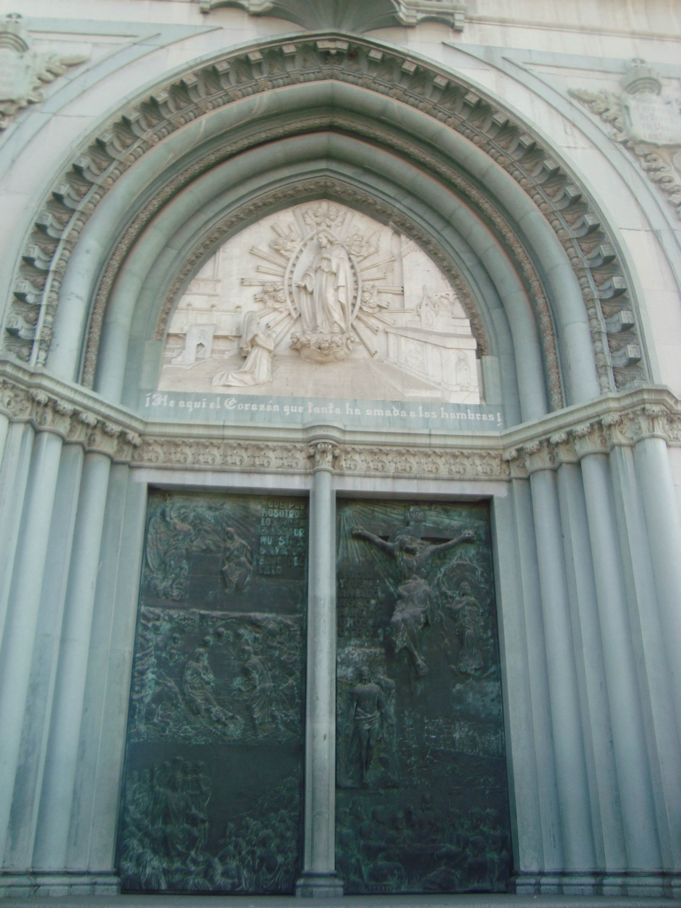 puerta